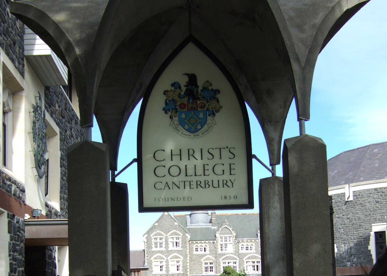 Christ's College, Main Gates